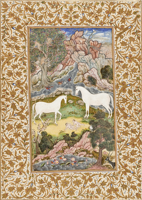 Pakistan, Lahore, Mughal empire, circa 1585-1590 Drawings; watercolors Opaque watercolor, gold, and ink on paper Sheet: 16 1/8 x 11 3/4 in. (40.96 x 29.85 cm); Image: 11 3/4 x 7 in. (29.85 x 17.78 cm) From the Nasli and Alice Heeramaneck Collection, Museum Associates Purchase (M.83.1.7) South and Southeast Asian Art